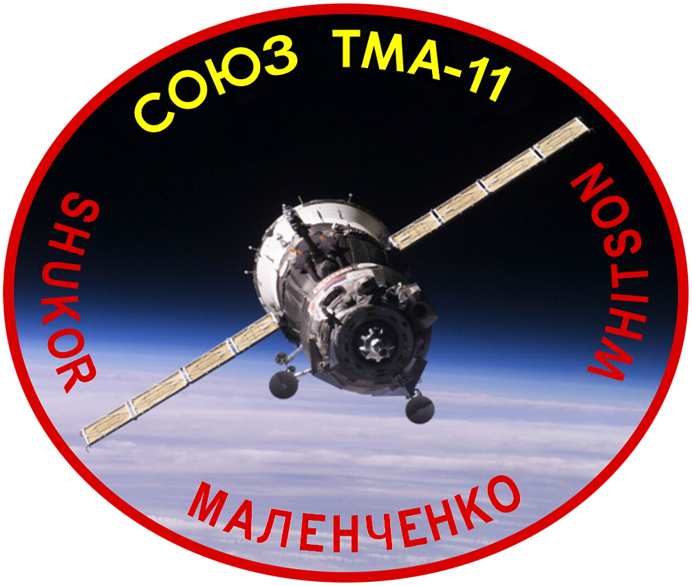 The official patch for the Soyuz TMA-11 mission, carrying Expedition 16 to the International Space Station.